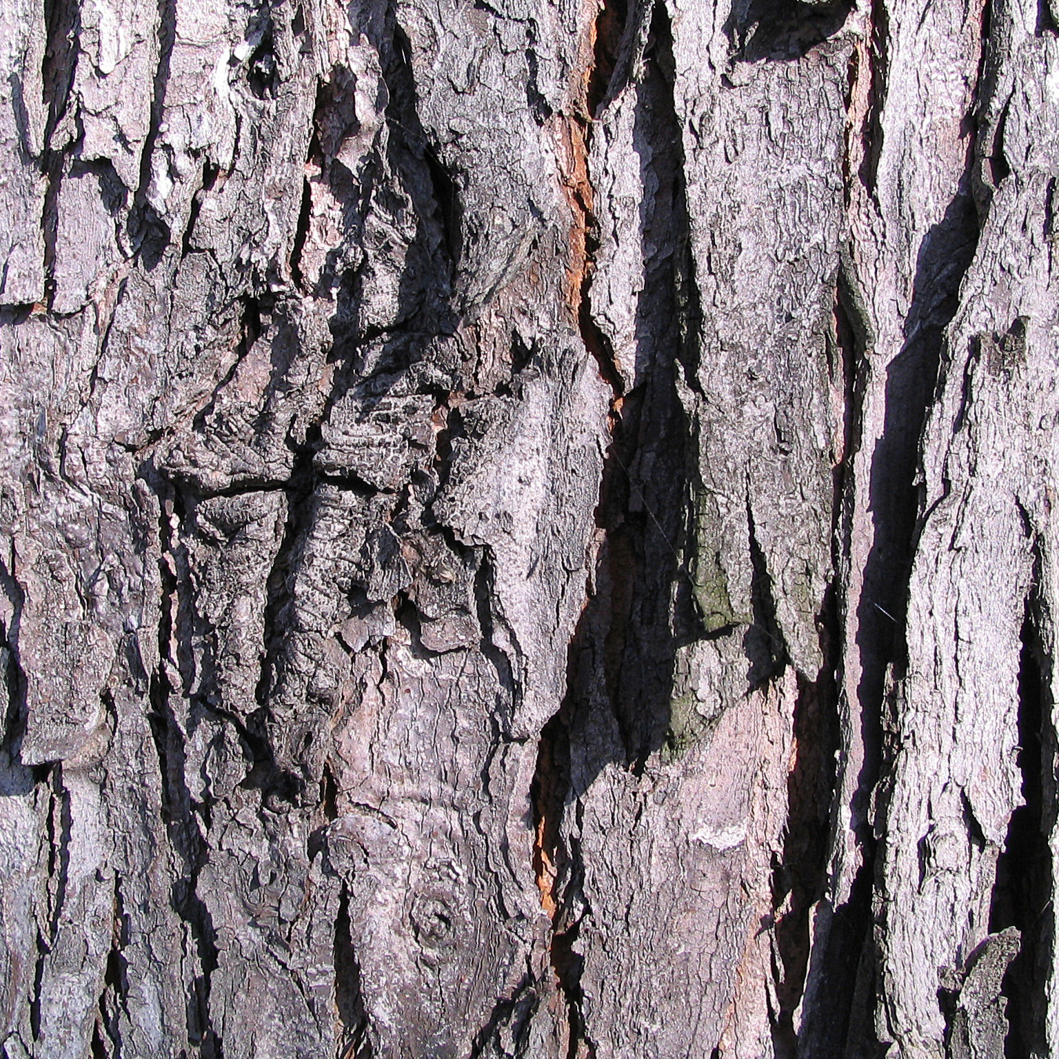 Acer saccharinum bark